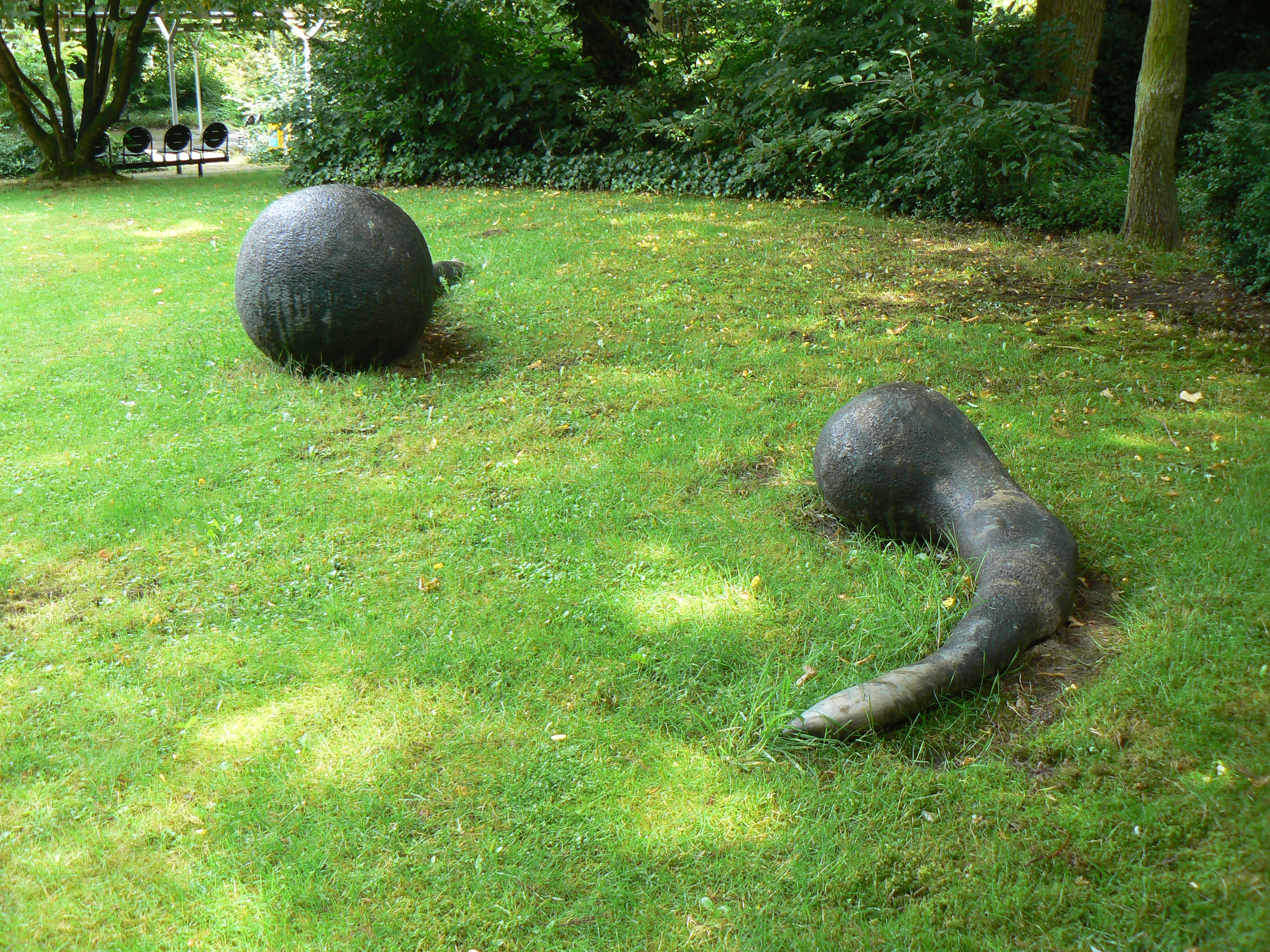 Sculpture Dyspepsie (3 parts - now 2) by Jochen Hiltmann from 1968 Eduard-Weitsch-Weg in Marl/Germany. Collection: Skulpturenmuseum Glaskasten